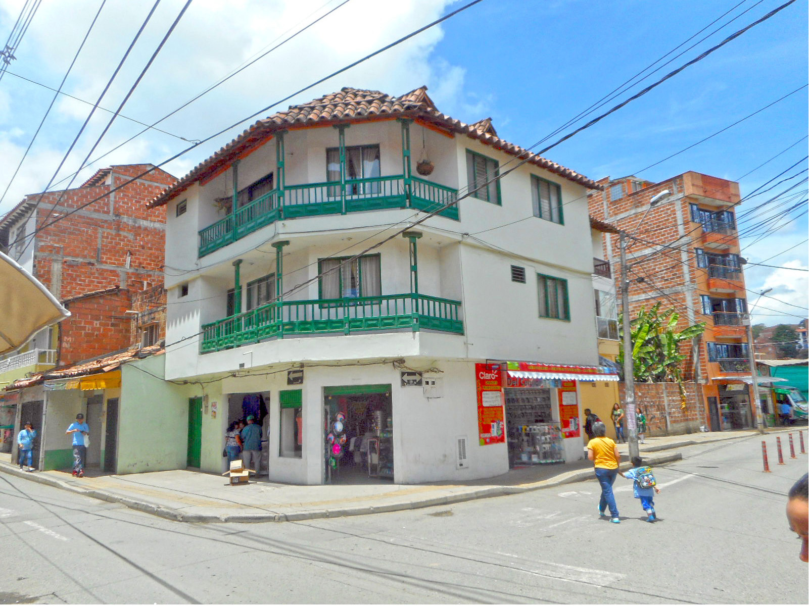 Marinilla, Colombia